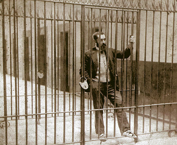 Basque Nationalist Party (PNV) member Sabino Arana in Larrinaga prison, Bilbao, 1895. He'd defended independence for Cuba.